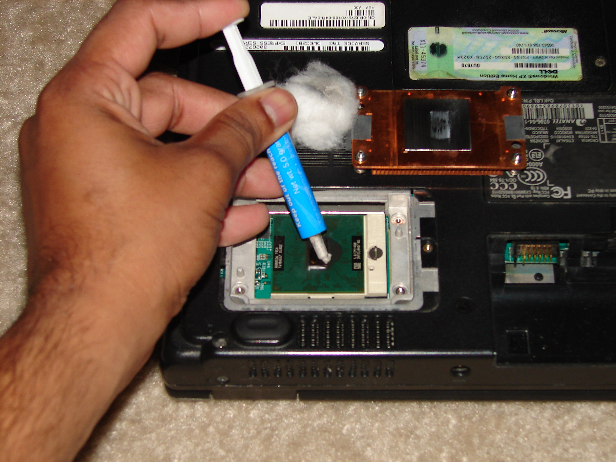 Application of thermal grease (thermal compound) directly on the die of some Intel mobile CPU.